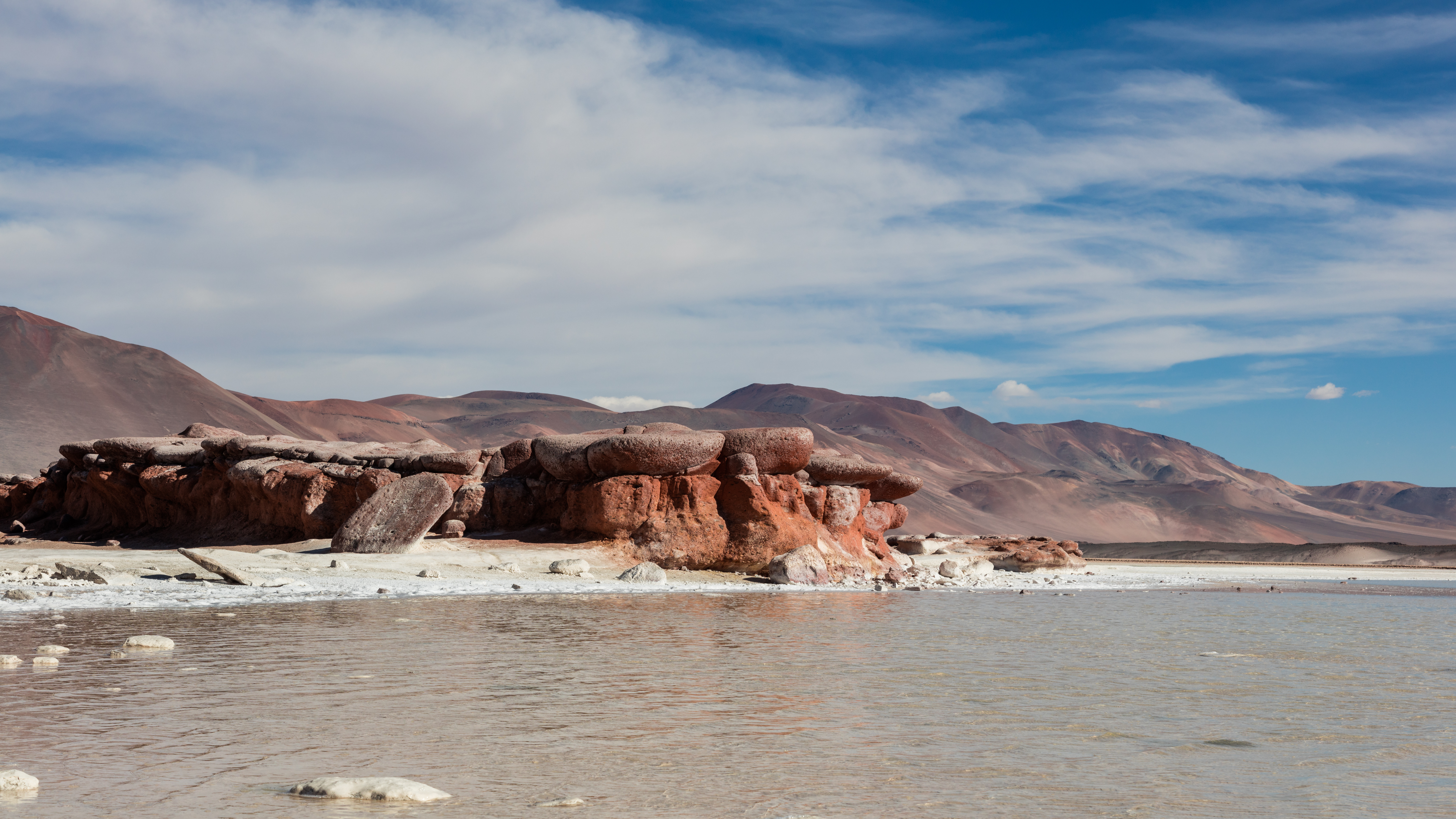 Piedras Rojas, Salar de Aguas Calientes, Chile